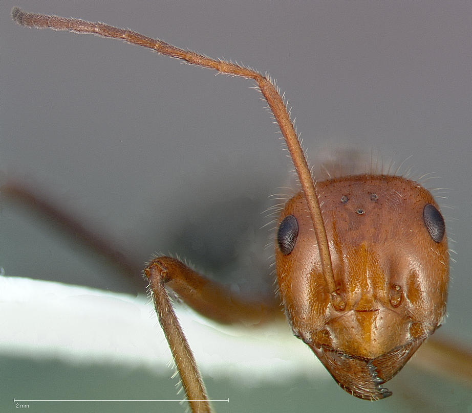 Head view of ant Myrmecocystus mendax specimen casent0005413.